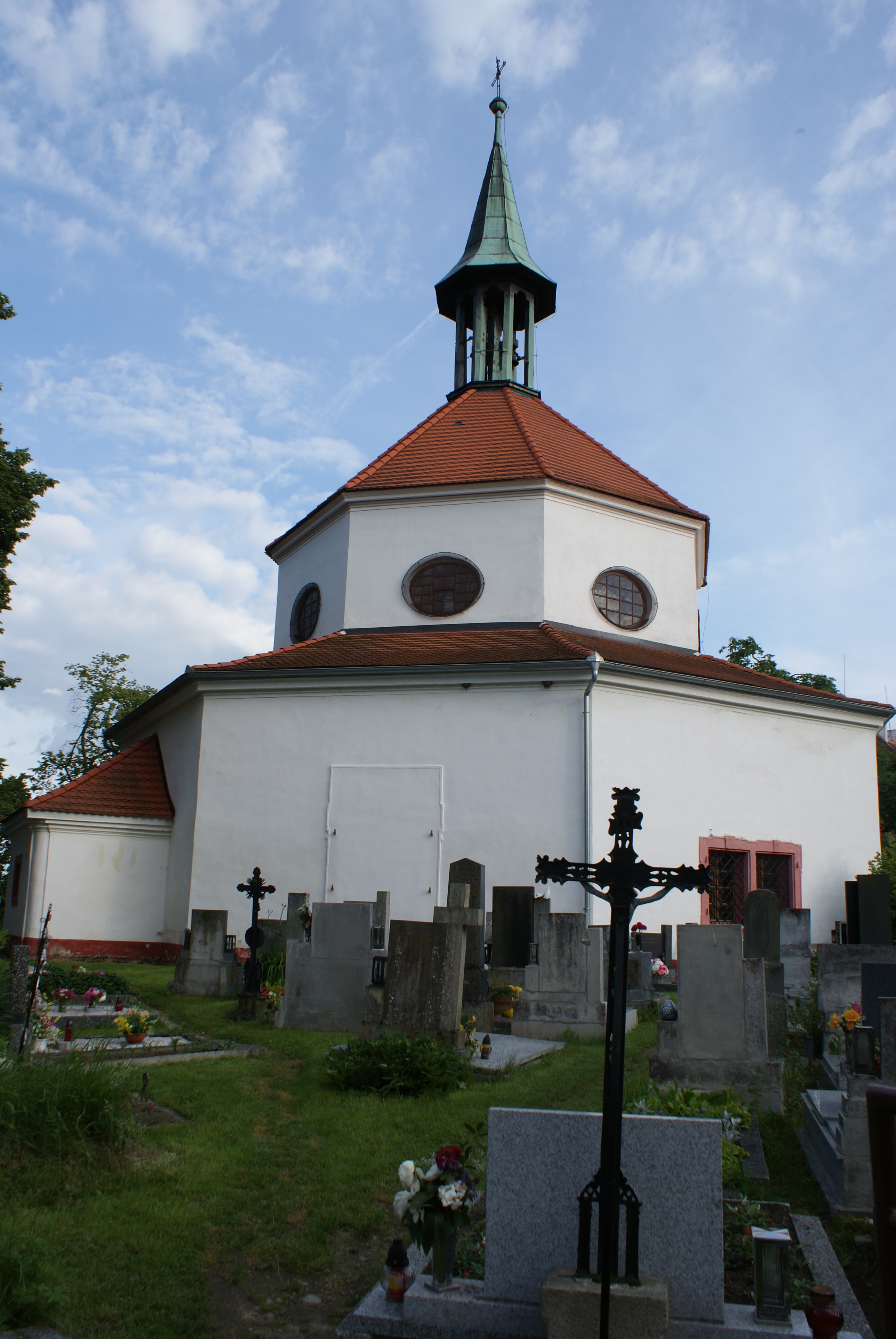 Skočice, village in Strakonice district, Czech Republic, Church of the Visitation of our Lady. Česky: Skočice, okres Strakonice, kostel Navštívení Panny Marie